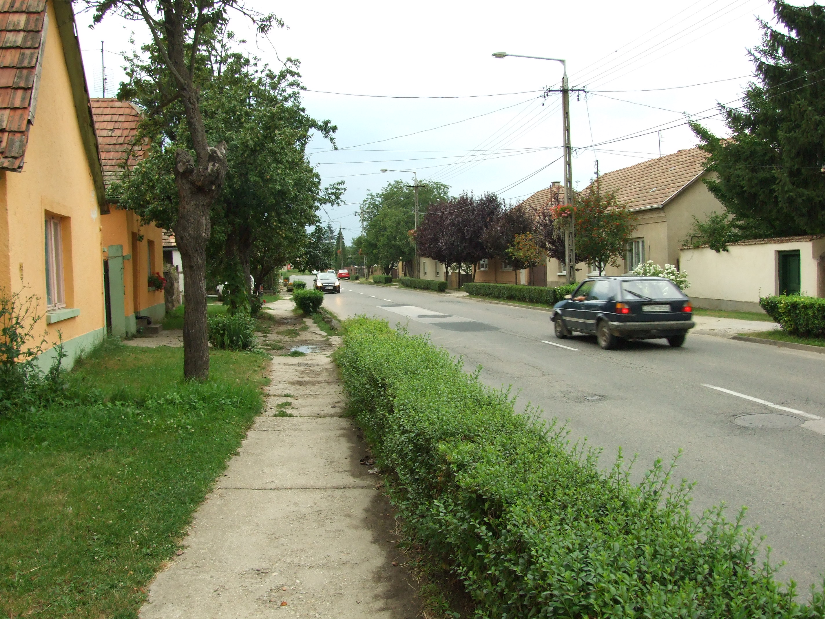 Village Pilismarót, Komárom-Esztergom comitat, Hungaryhelp